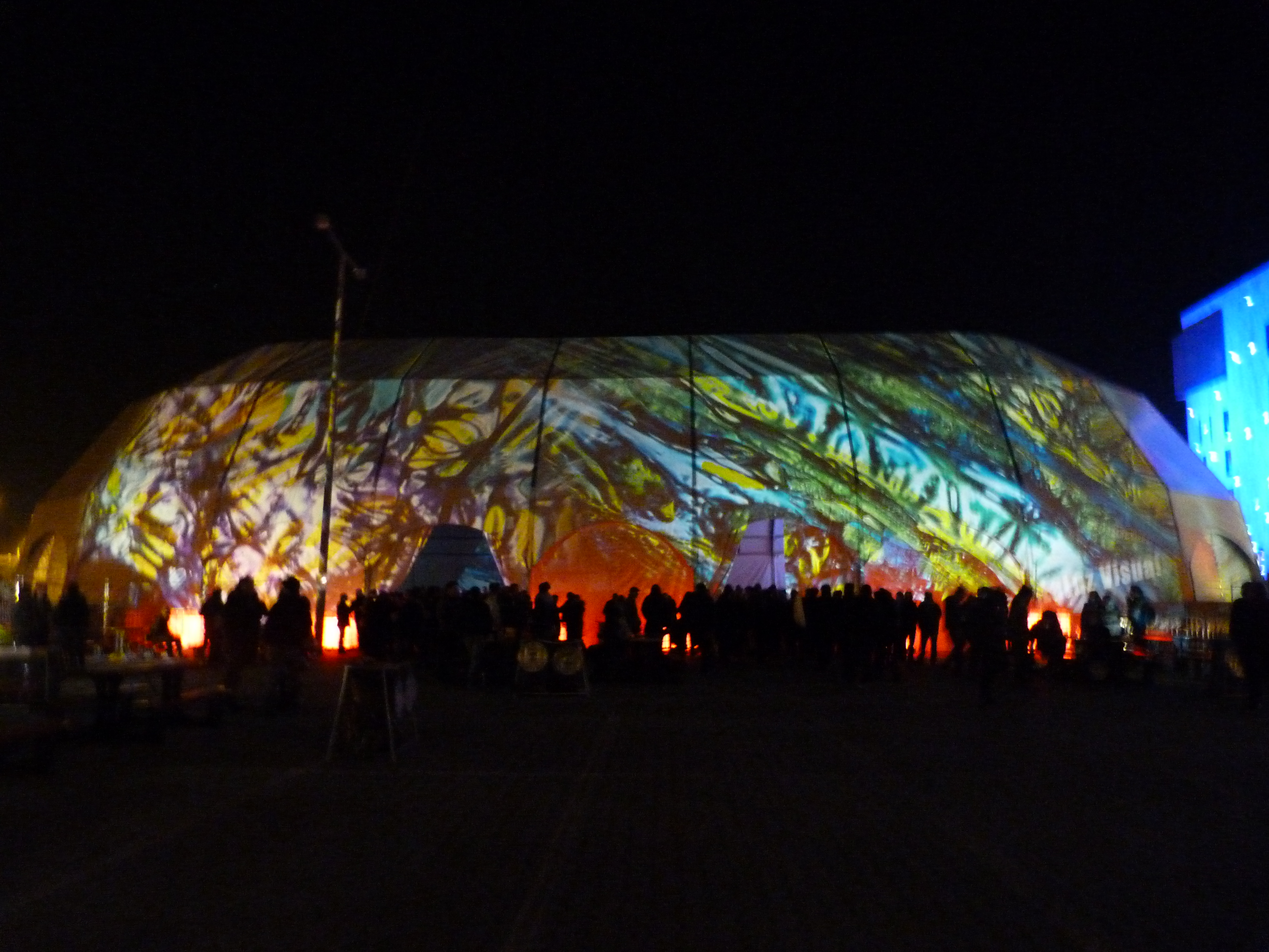 Live on the 22nd of October, 2015. WOMEX 15. Budapest, Hungary. WOMEX 15 tent.